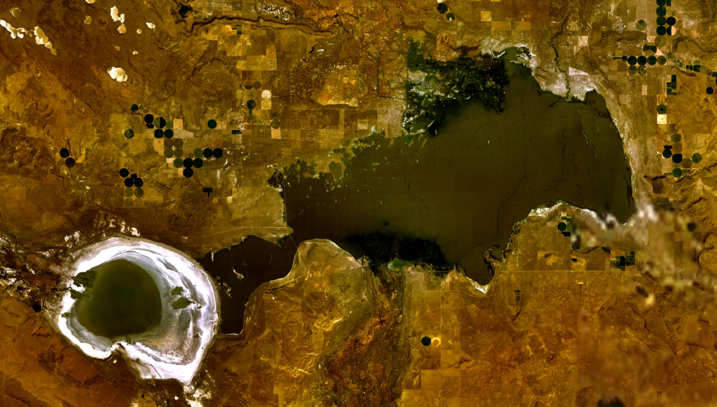 Harney Lake and Malheur Lake in Oregon, USA NASA NLT Landsat 7 image. Final image made using NASA World Wind.